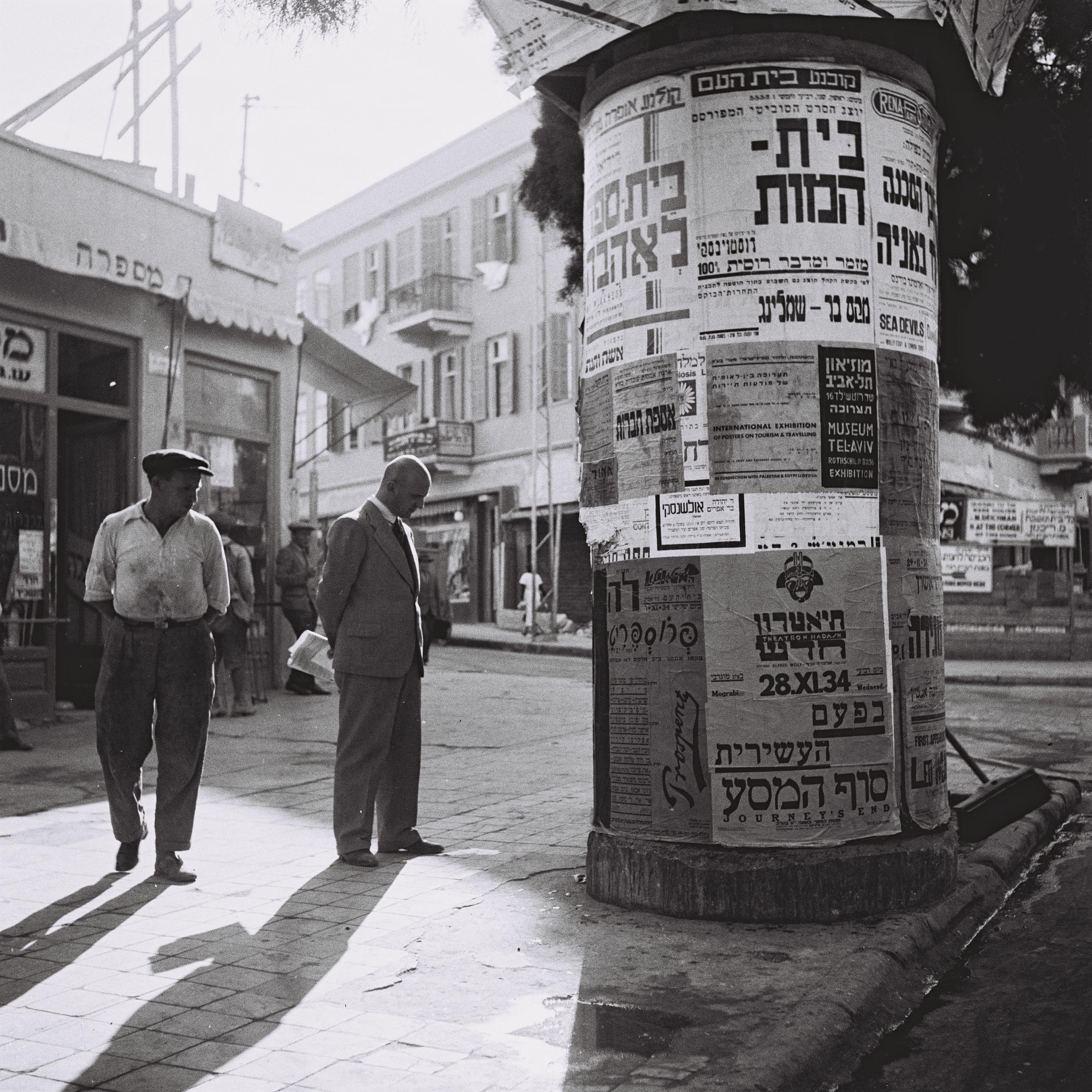 A BILLBOARRD ANNOUNCING CULTURAL EVENTS IN TEL AVIV.